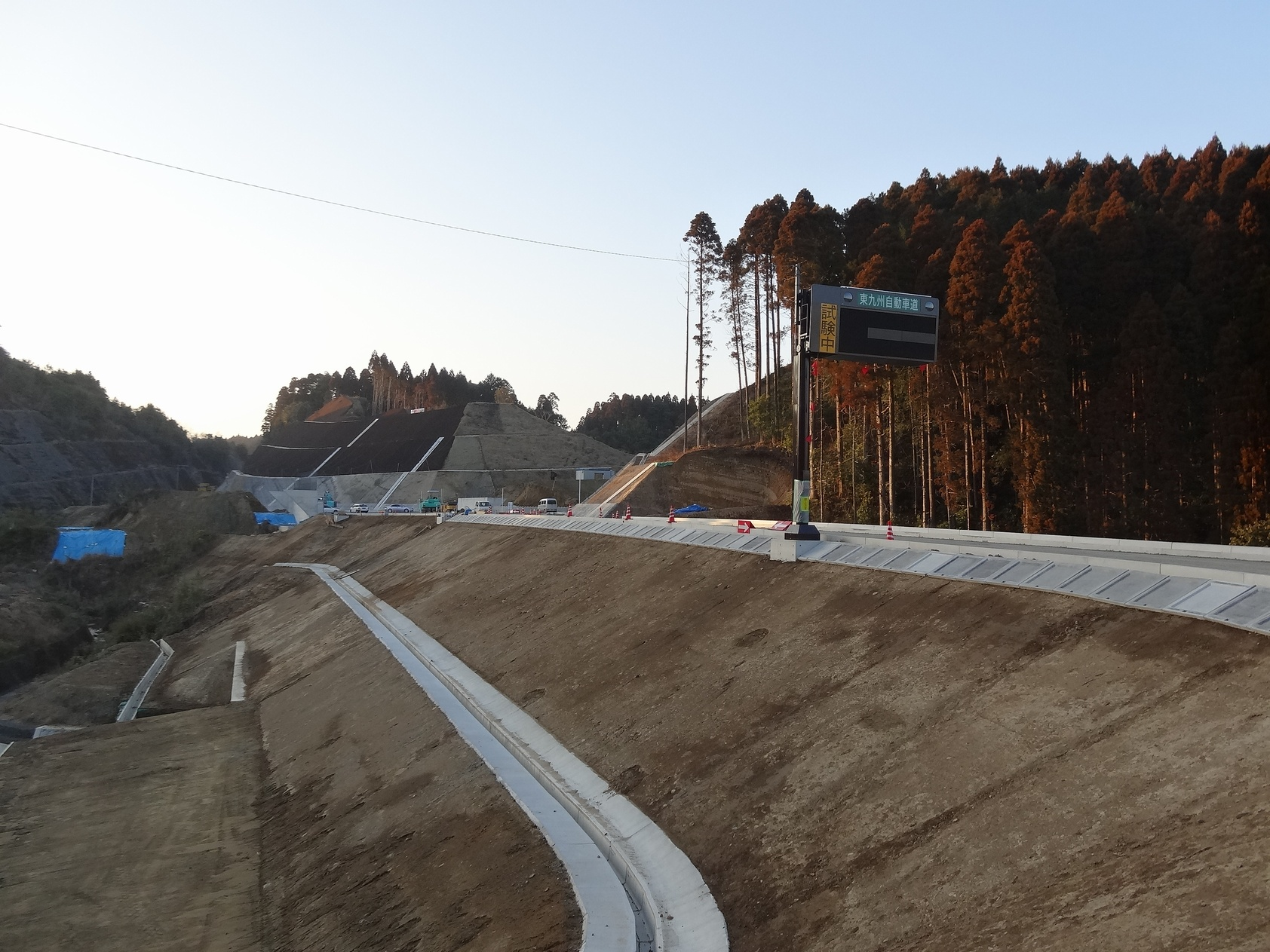 The Under Construction of Kiyotake- Minami Interchange of Higashi-kyushu Expressway in Kiyotake, Miyazaki City, Miyazaki Prefecture, Japan.